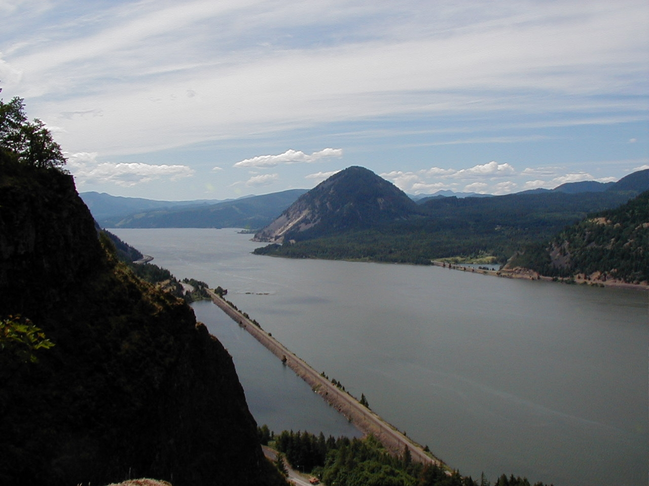 Hiking near Starvation Creek in the Columbia River gorge in Oregon.